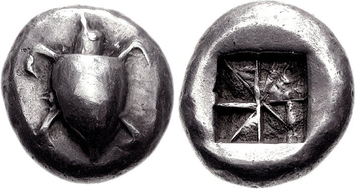 Aegina, 550-530/25 BC. Silver Stater (12.30 g). Proto sea turtle, shell with large pellets down center and no collar / “Union Jack” incuse pattern with eight segments in deep square.